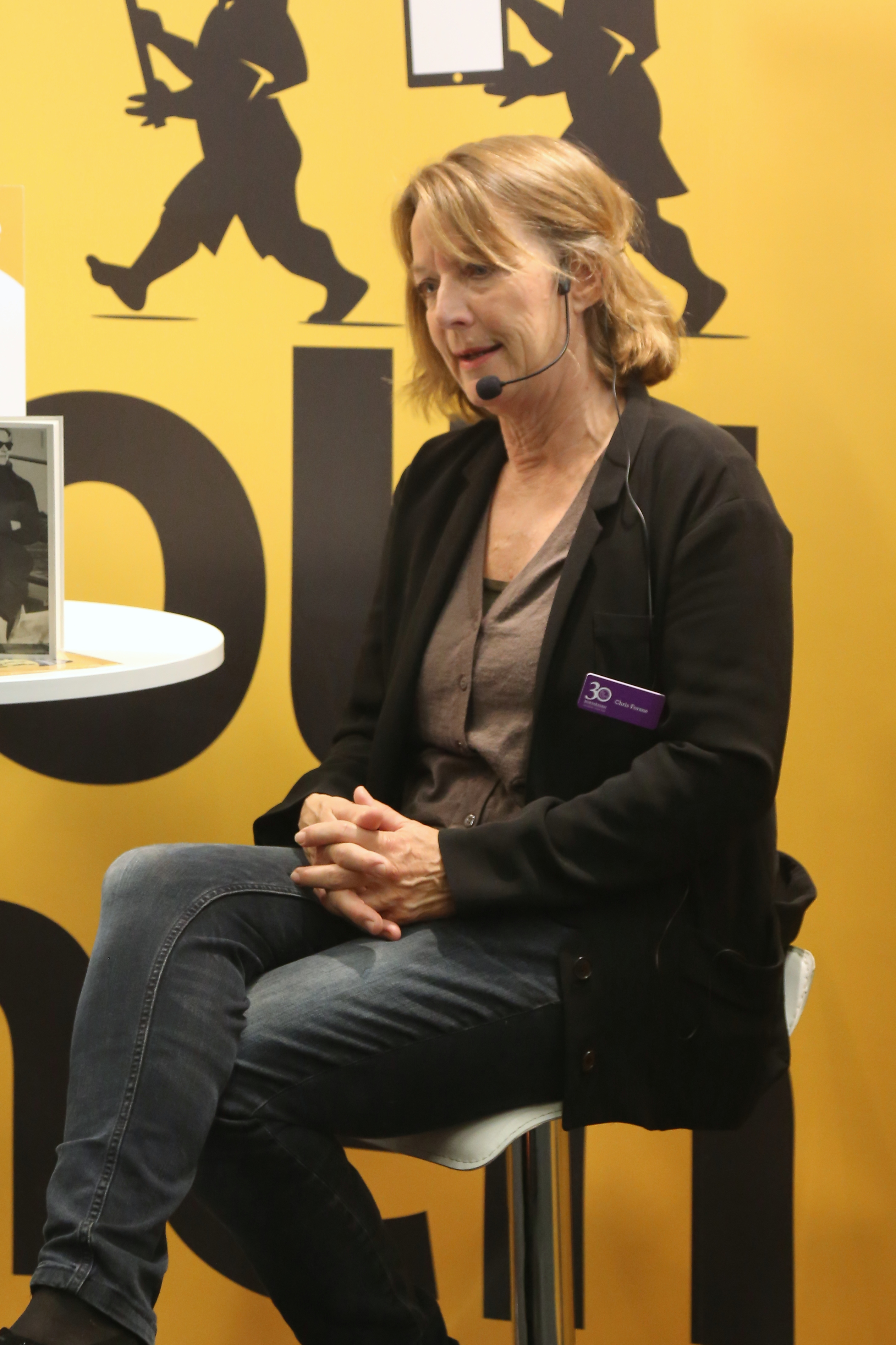 Chris Forsne at the Gothenburg Book Fair 2014.